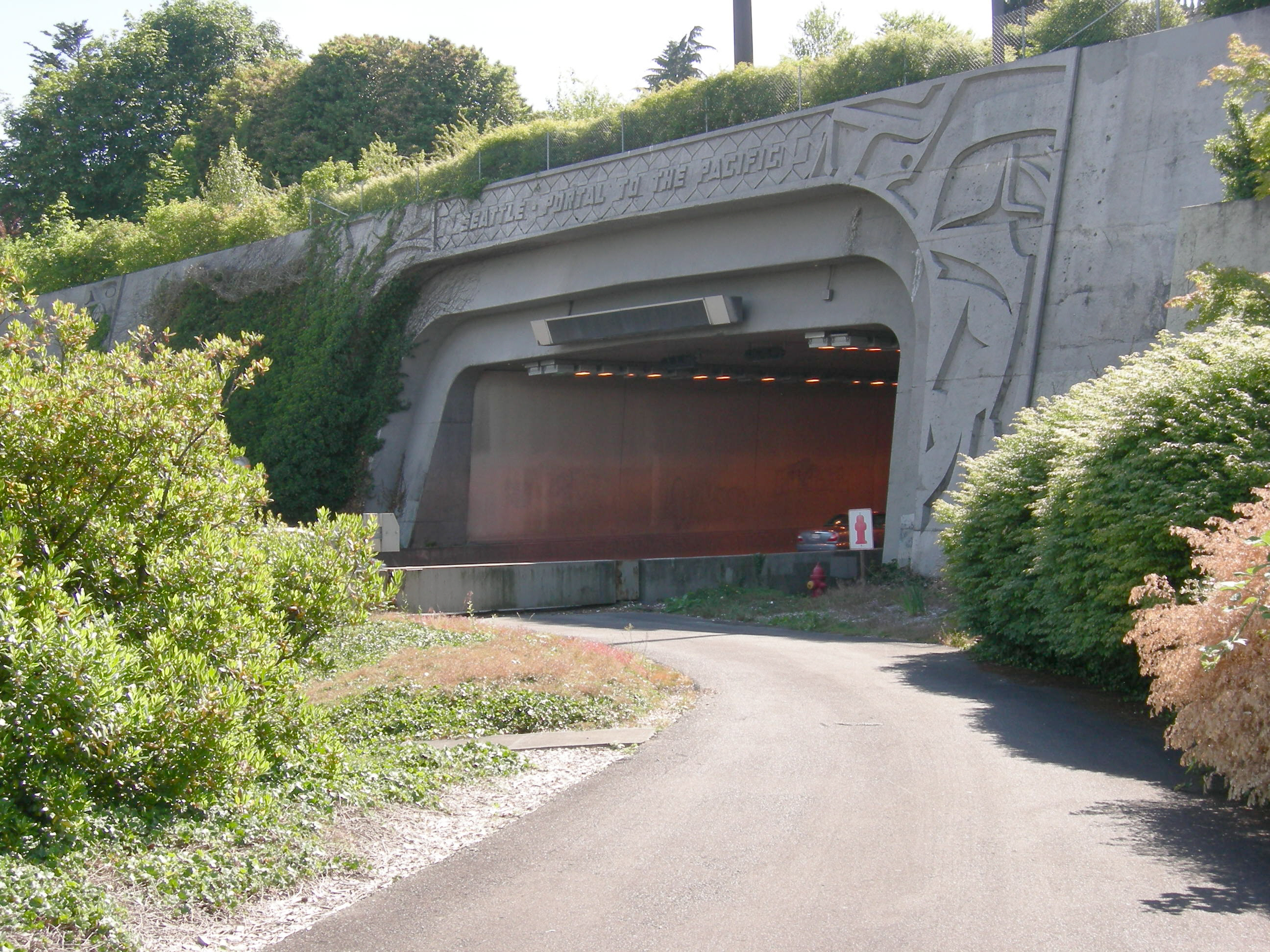 "Seattle Portal to the Pacific", sign executed as a sculptural relief in cast concrete on east entrance to the Interstate 90 tunnel through the Mt. Baker neighborhood, as you come off of the I-90 floating bridge (the westbound bridge is officially the Homer Hadley Bridge) into Seattle, Washington.